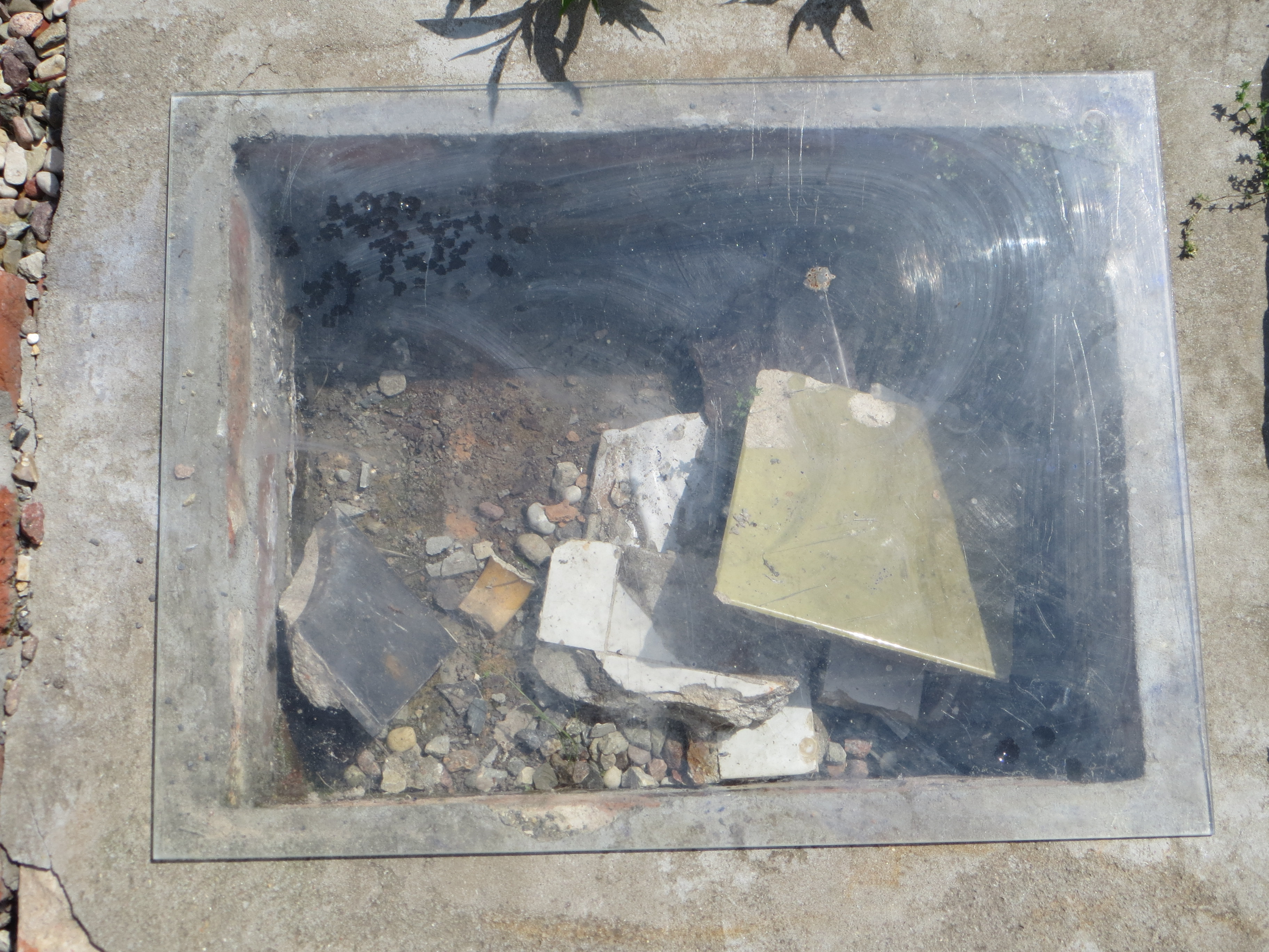 Dietrich Bonhoeffer garden of silence and meditation in Zdroje/Finkenwalde, site of Bonhoeffer's seminar 1935 to 1937